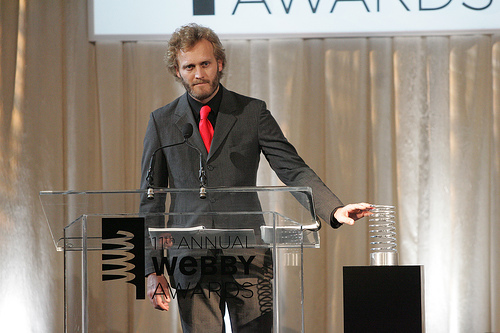 Nicolas Roope picking up wmmna's webby